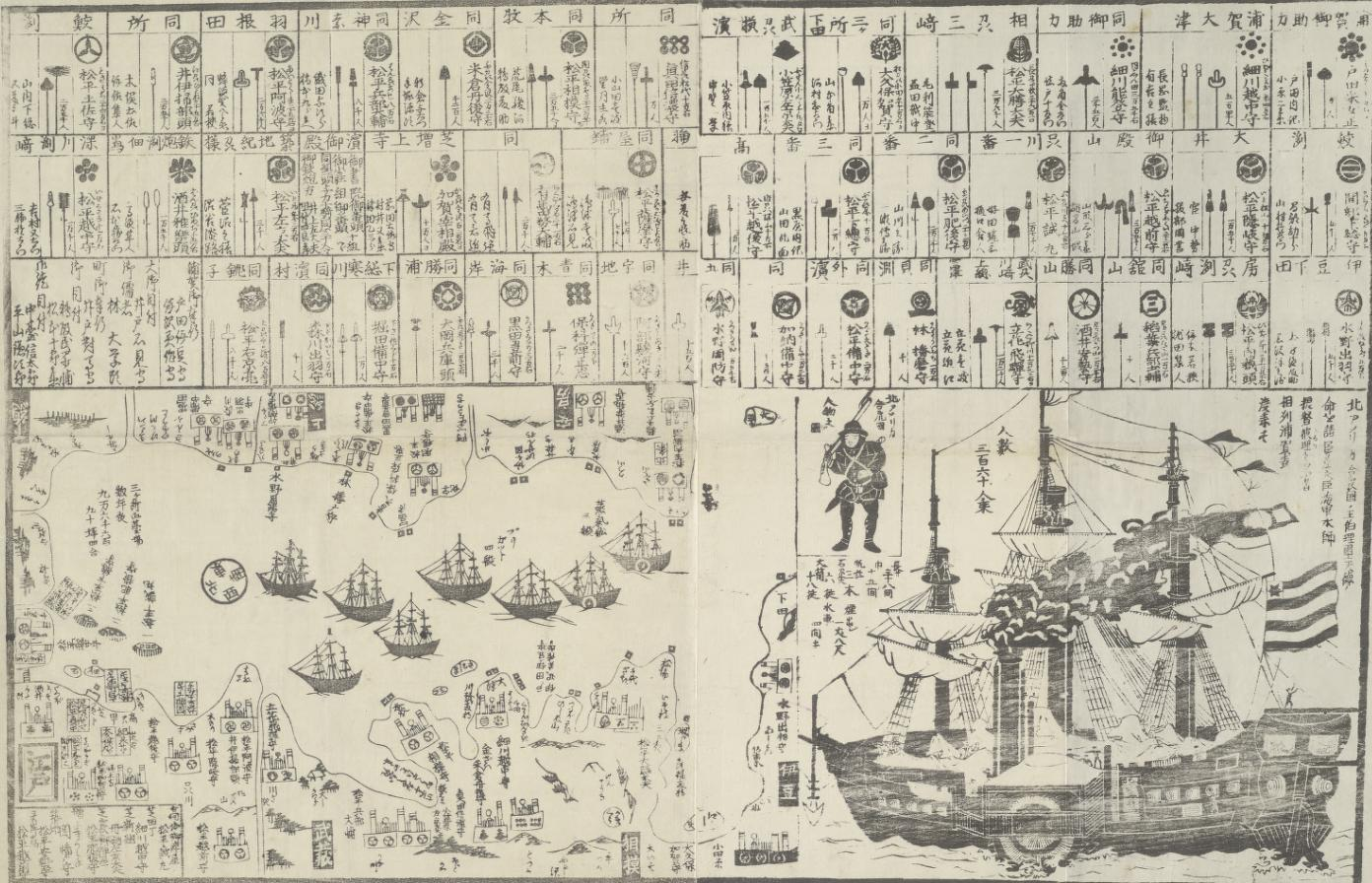 Japanese 1854 print relating Perry's visit.